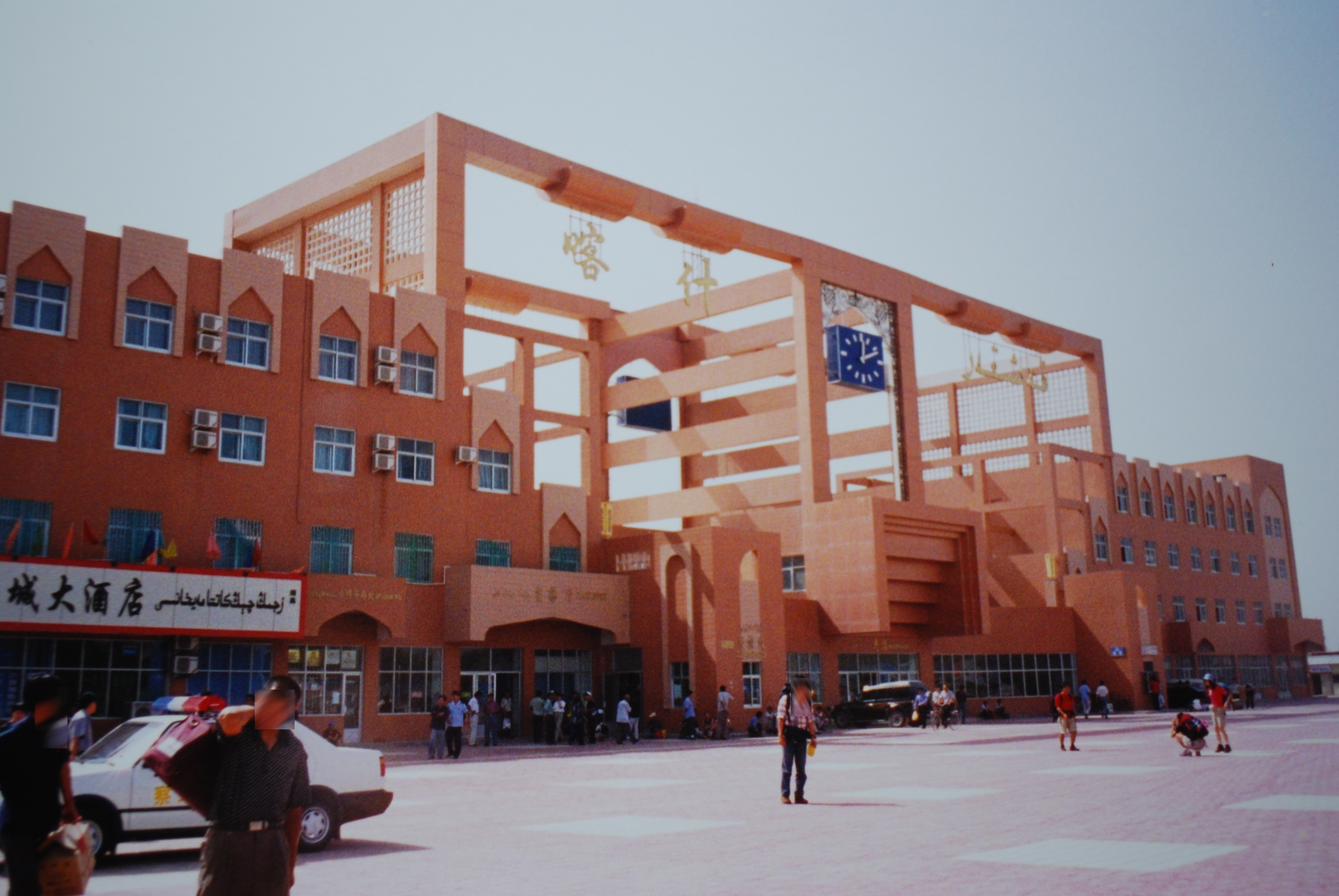 Kashgar sta.,kashgar-city,Xinjiang,china